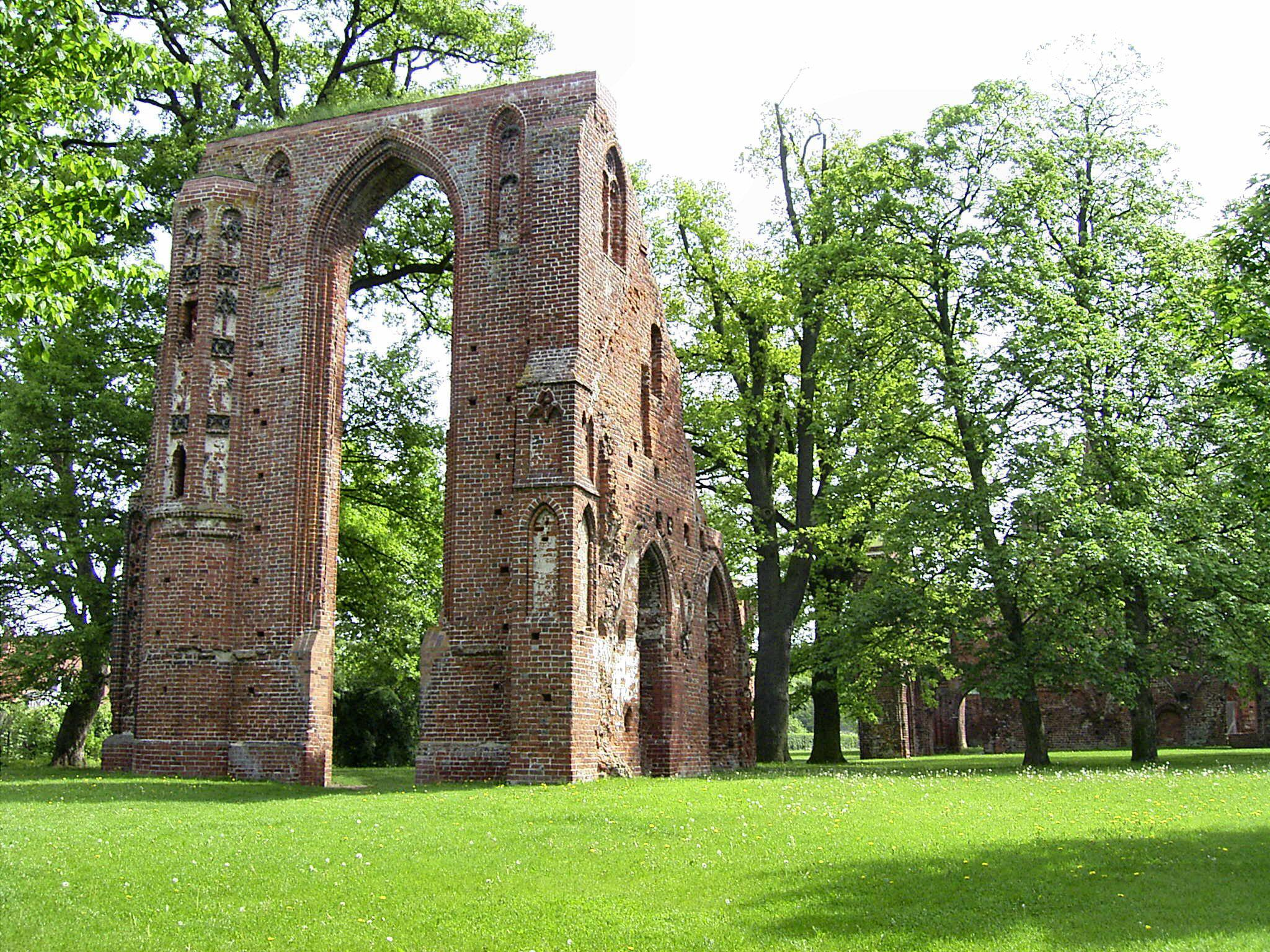 Monastery ruin Eldena near Greifswald